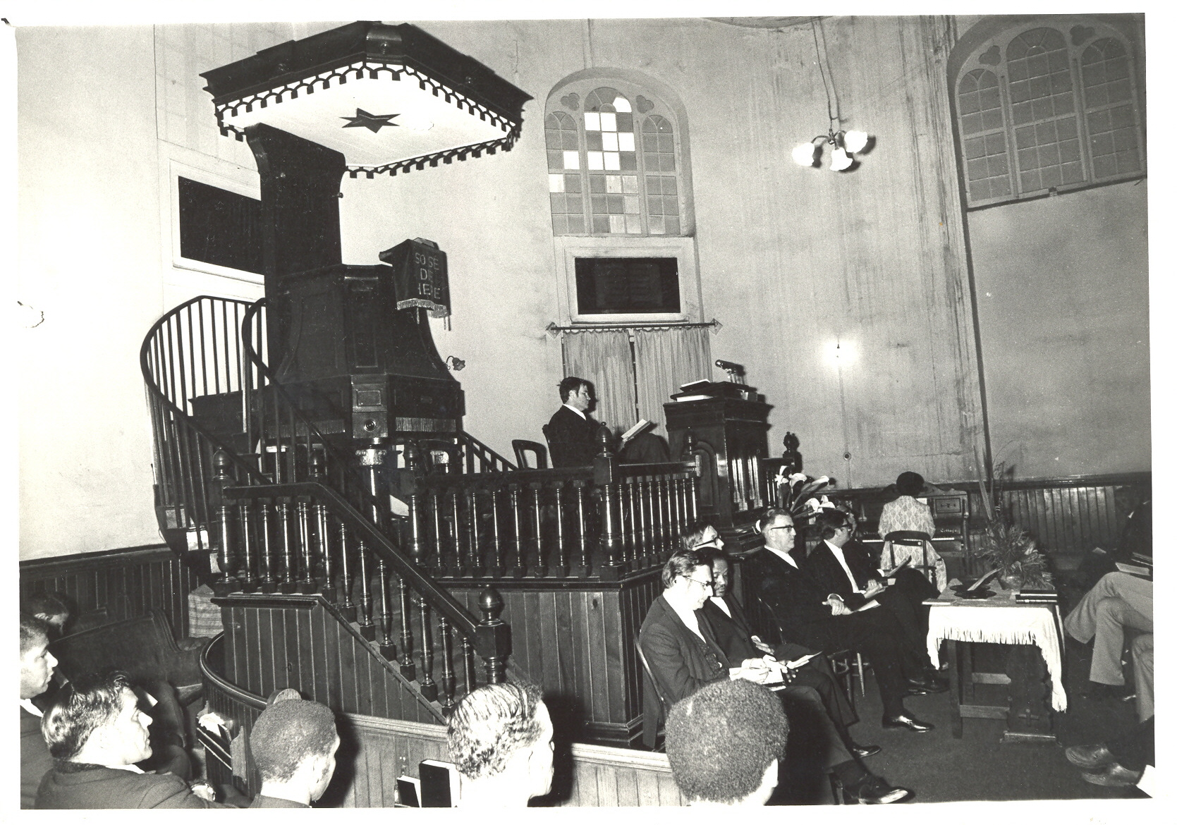 The last church service at the Sendinggestig